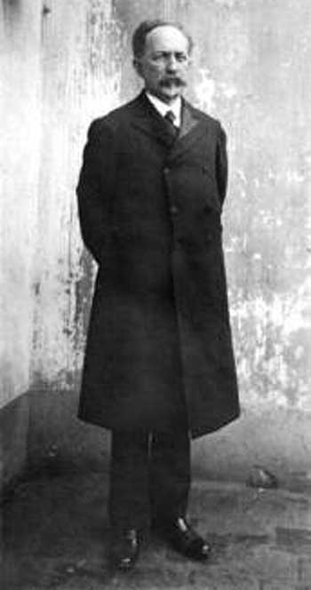 José Benjamin Zubiaur, founding member of the IOC, Courtsey of the Archivo General de la Nación, Buenos Aires, photography, reproduction, no restrictions on use Copyright: free of charges